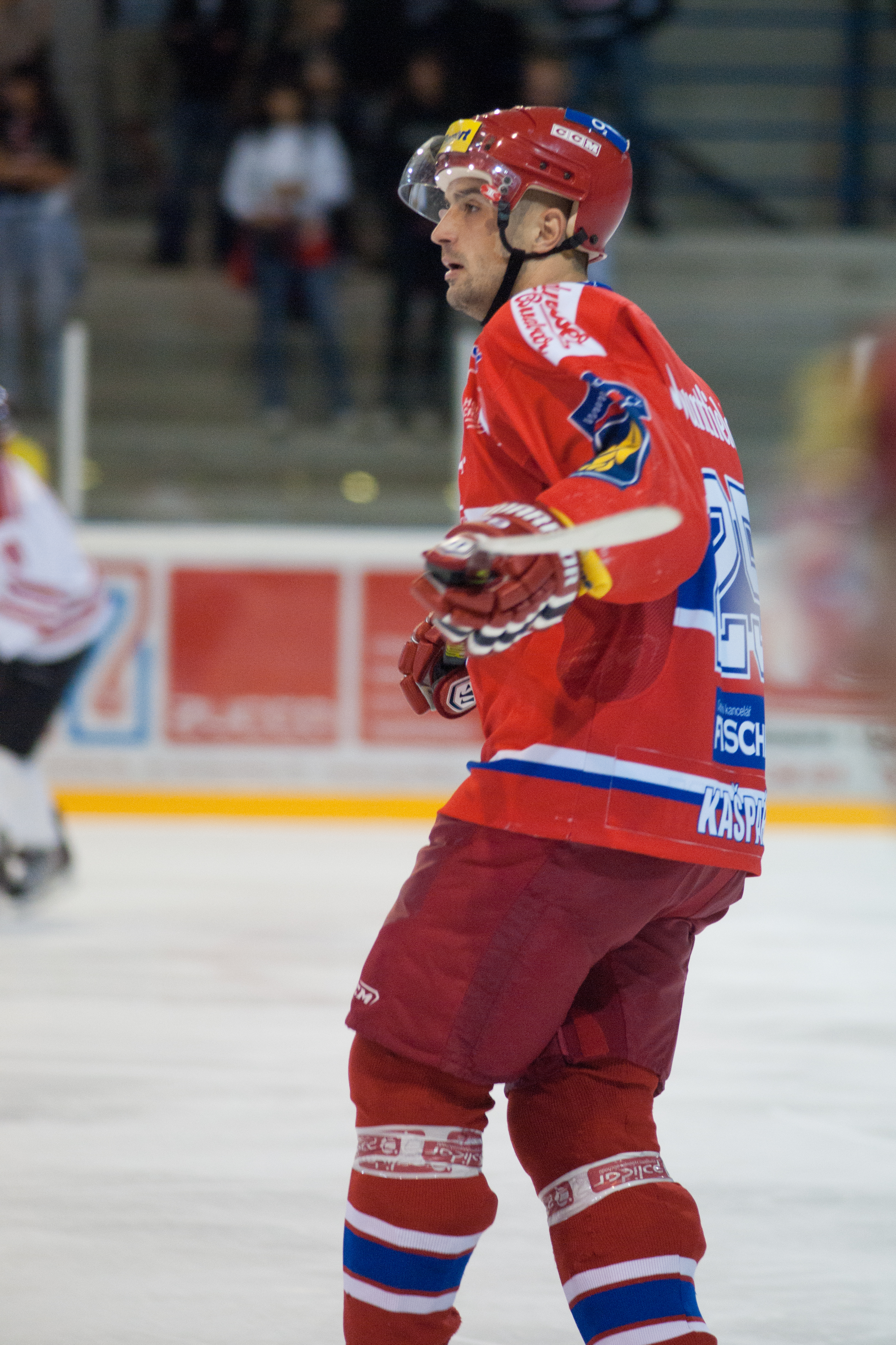 Festyvhockey 2010, Yverdon-les-Bains. The making of this document was supported by Wikimedia CH. (Submit your project!) For all the files concerned, please see the category Supported by Wikimedia CH.